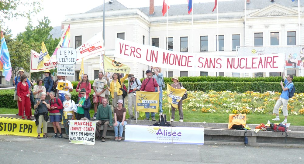 Antinuclear Walk London-Geneva 2008, Angers.